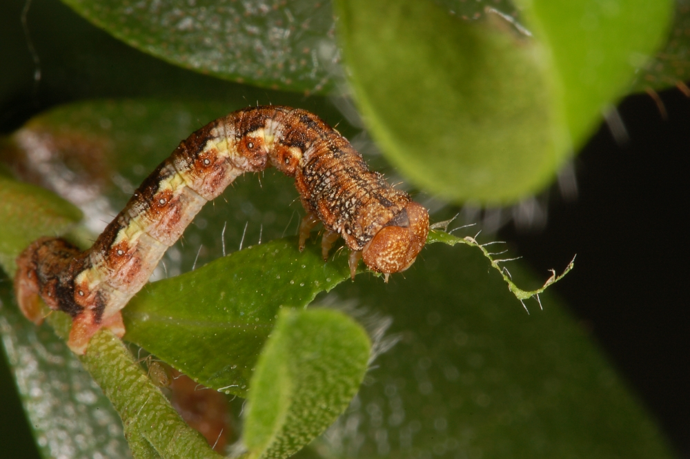 Caterpillar on Rhododendron praecox, Nied, Frankfurt/Main, Germany